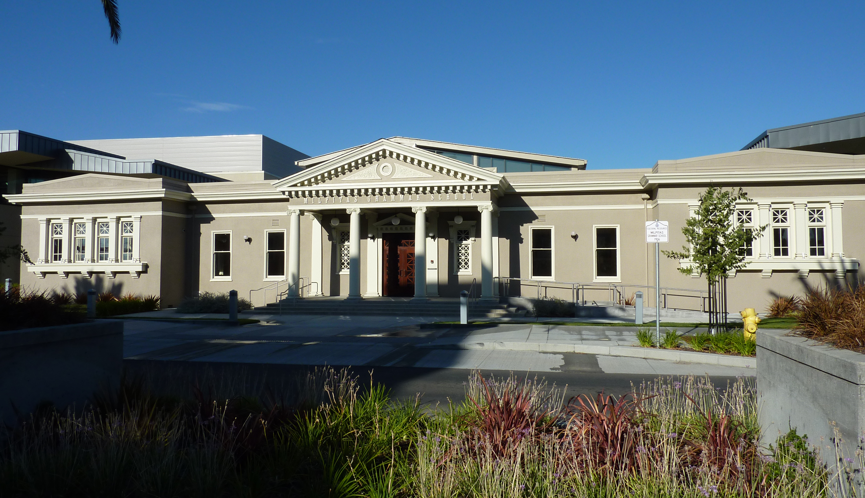 Milpitas Grammar School (built 1915), listed on the National Register of Historic Places, has also served as City Hall, a library and a Senior Center. In 2006 it was integrated into a new community library building. Milpitas, California, USA.